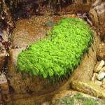 Acrosiphonia arcta NPS photo